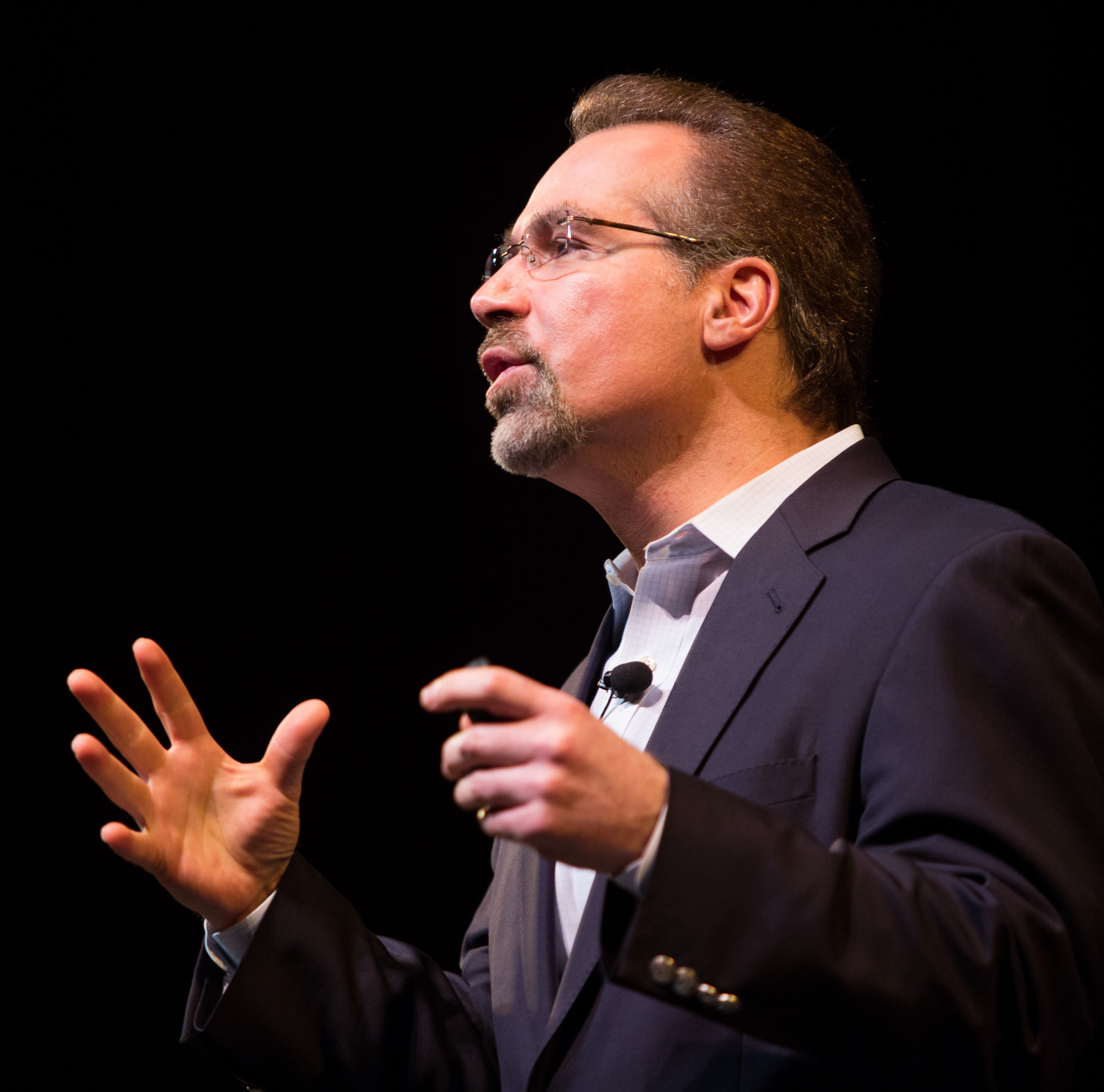 David Ferrucci, a Research Staff Member and leader of the Semantic Analysis and Integration Department at IBM's T.J. Watson's Research Center speaks about his involvement in IBM"s Watson super computer during Binghamton University's TEDx.